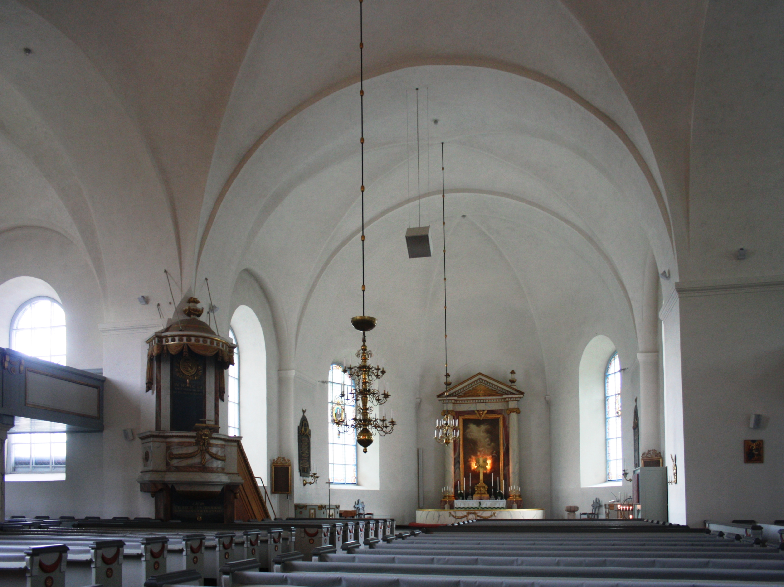 Filipstad, Sweden. Church: interior towards East.